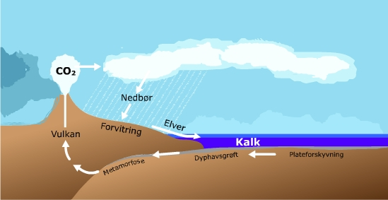 The geologic carbon cycle